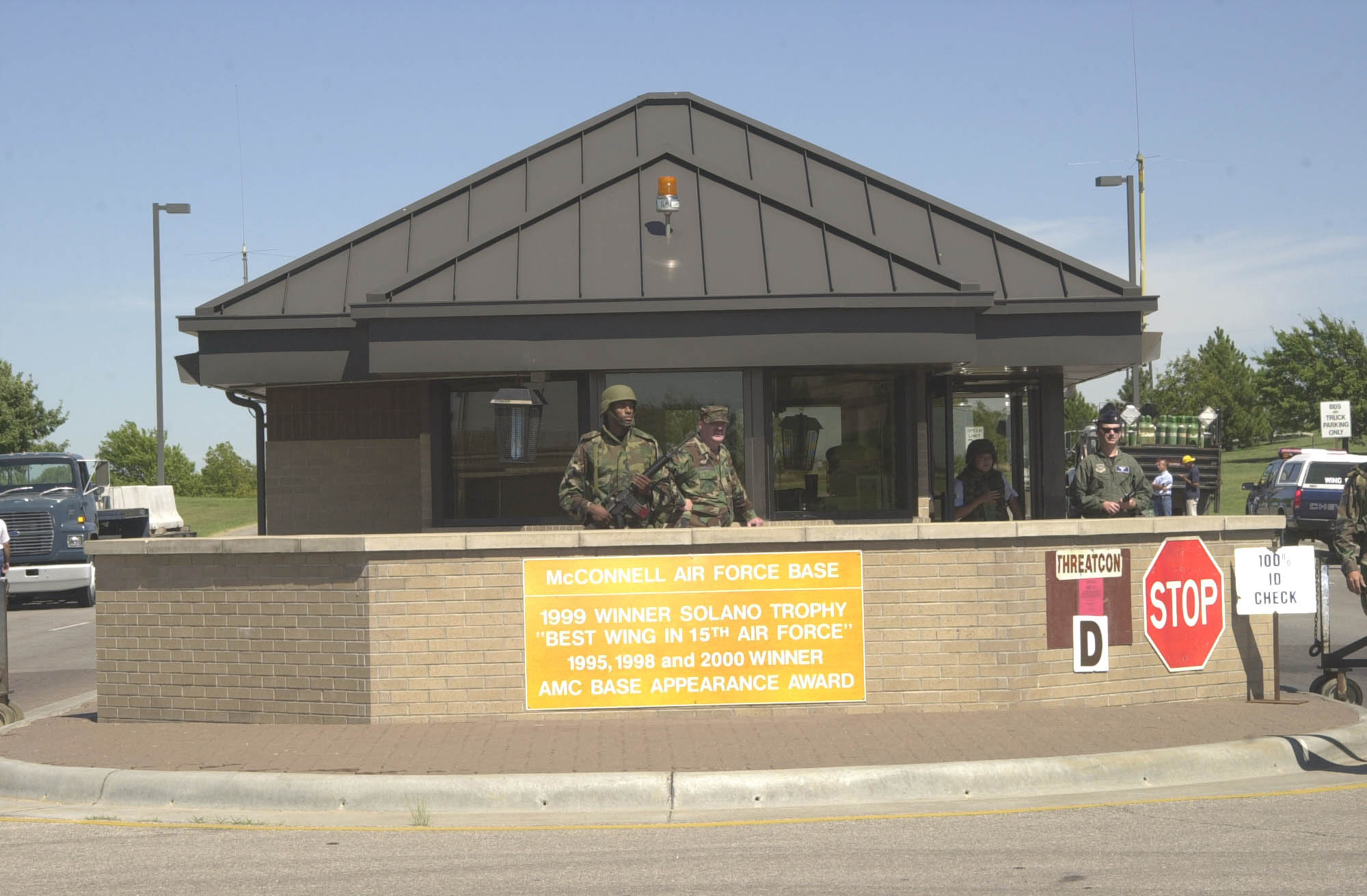 The 22nd Security Forces Squadron of McConnell AFB is taking all precautions to prevent the base from all possible terrorist activity during Force Protection Delta on Sept. 11, 2001. (U.S. Air Force photo by Airman Akeba Lawrence)